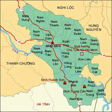 namdan